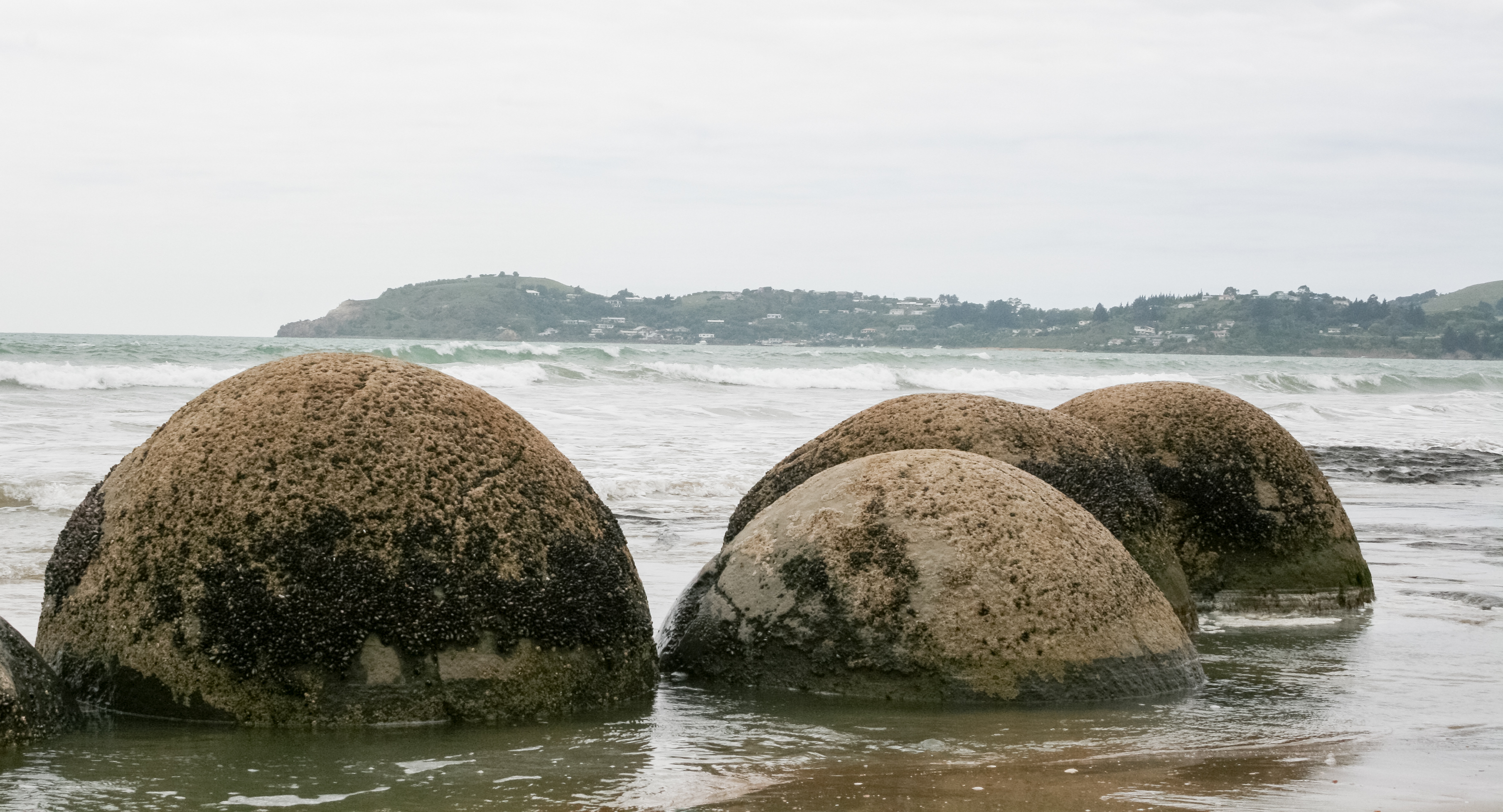 Moeraki Boulders, New Zealand